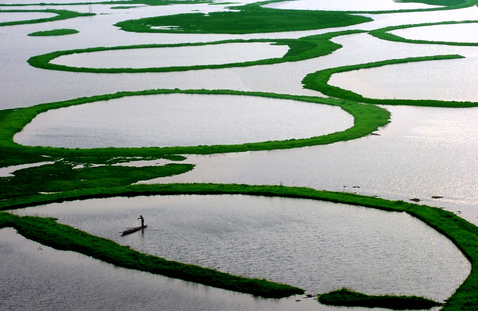 A fisherman searches for catch at Loktak lake in Manipur, India. It is also called the "Floating lake" due to the floating house on it.